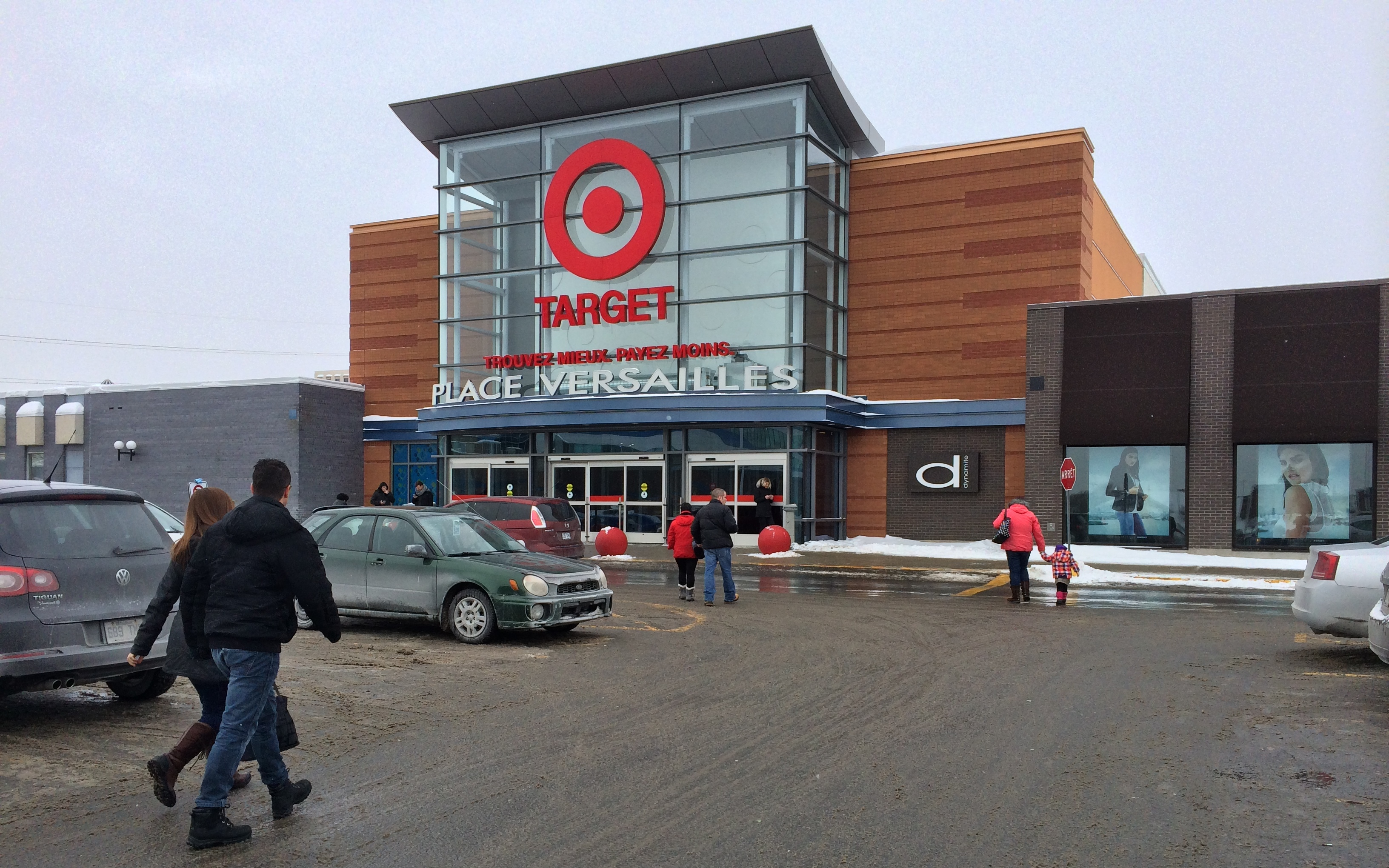 Target Rue Sherbrooke Est Montreal, QC 1